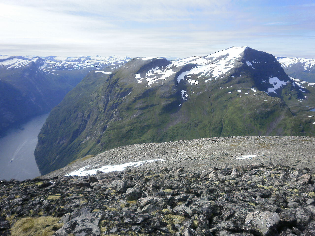 Mountains in Norway